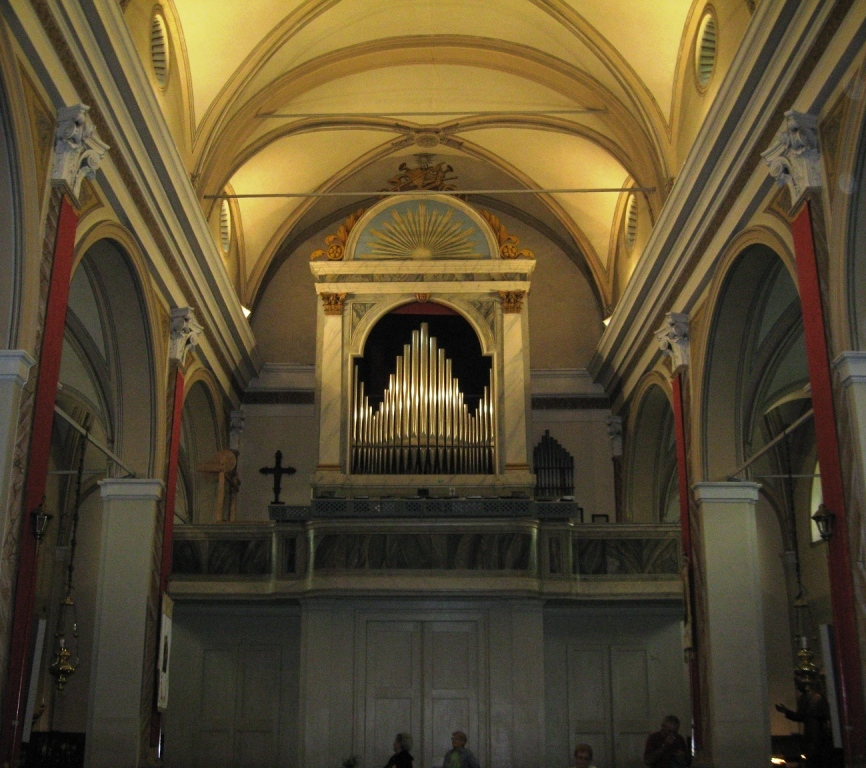 A beautiful church organ from 1801 produced by Callido.